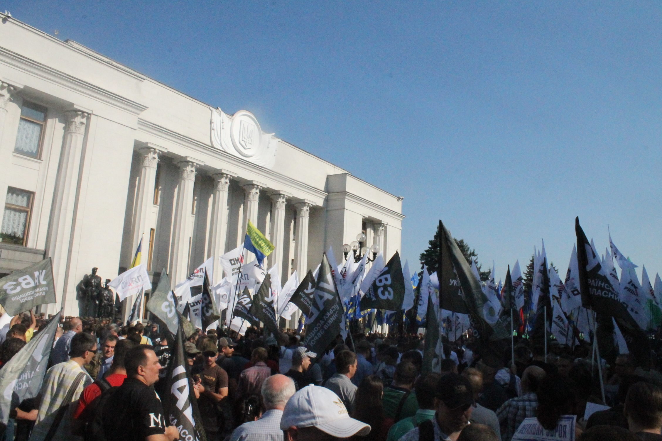 Protests against changes to Constitution, August, 31, 2015